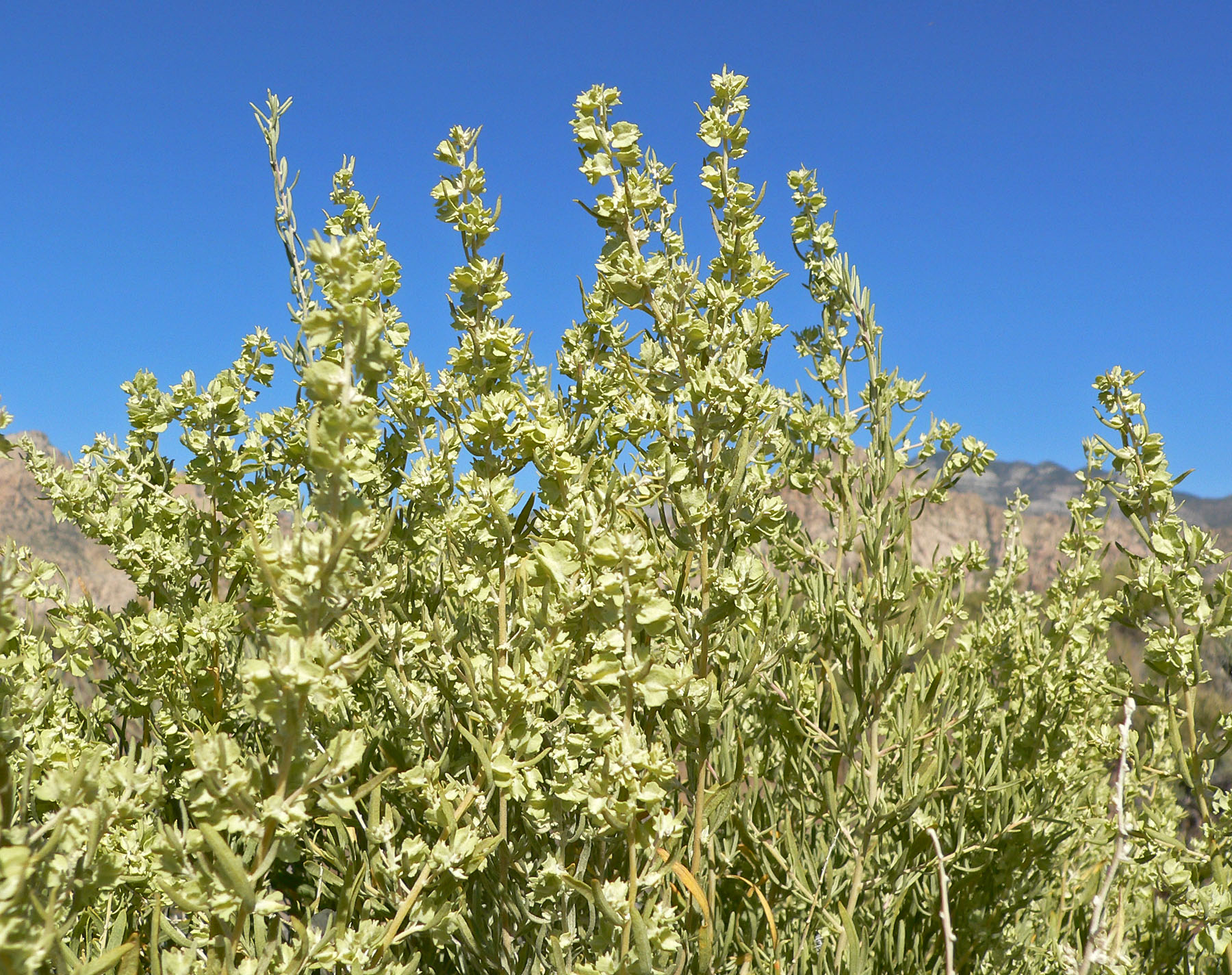 Atriplex canescens var. canescens in Red Rock Canyon, southern Nevada